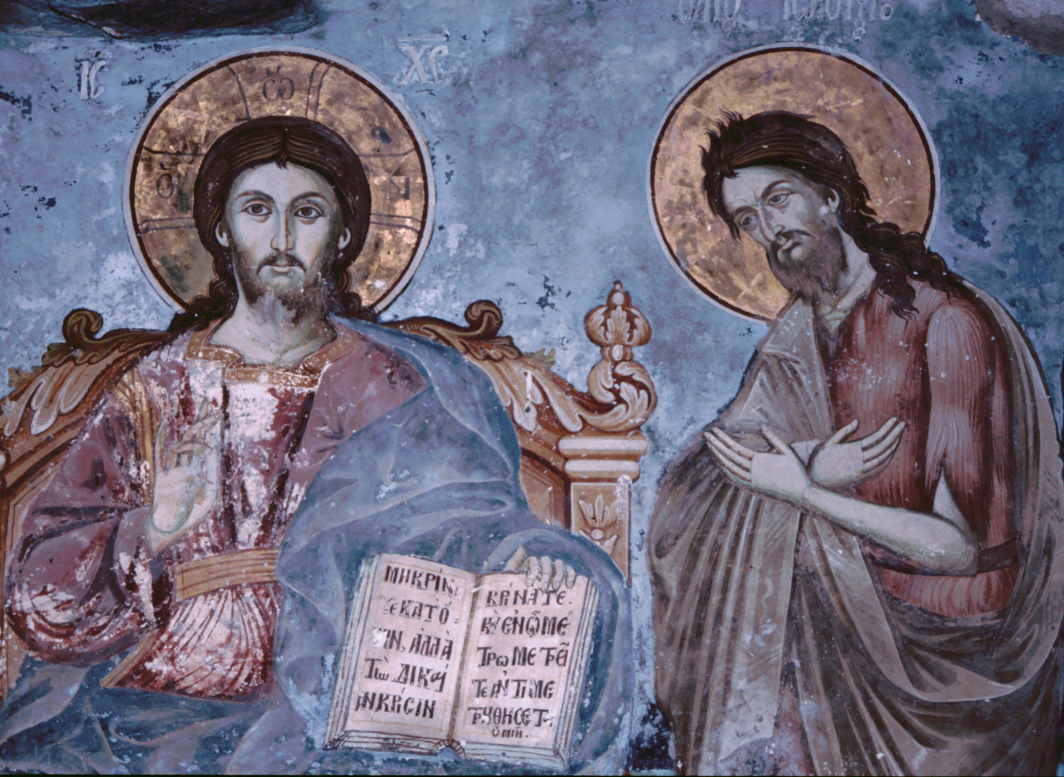 Wall painting in the church of Karyes, the governmental and administrative centre of the Monk's republik Athos